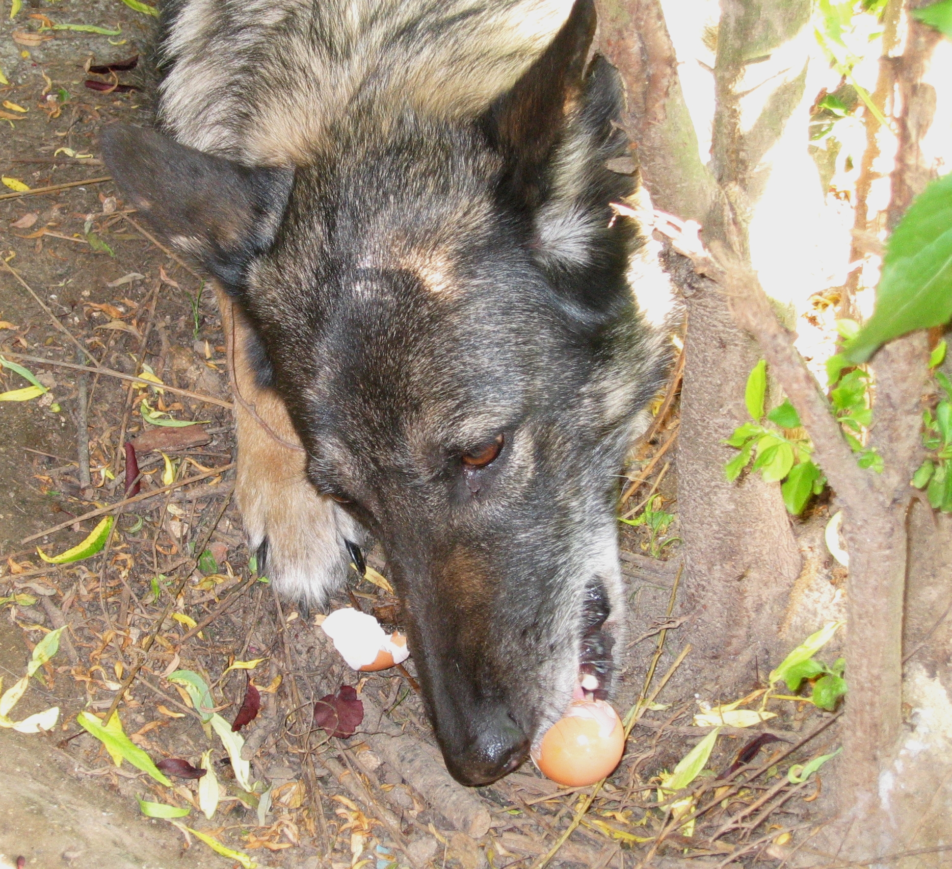 Dog eating a whole egg raw